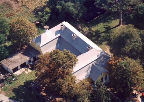 Krasznokvajda, Hungary, aerialphotography This is a photo of a monument in Hungary, Identifier: 2869 Szentimrey Mansion